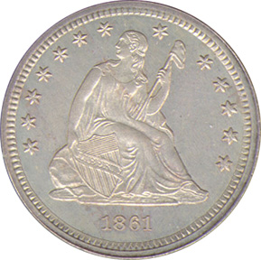 1861 Quarter Dollar, Seated Liberty, Obverse